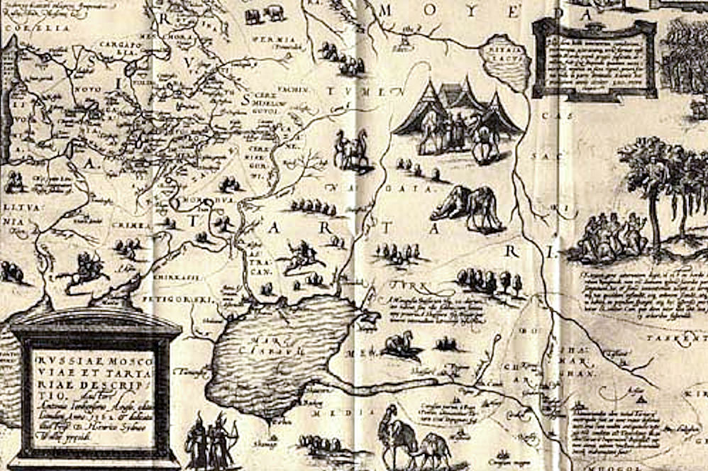 Jenkinson_map